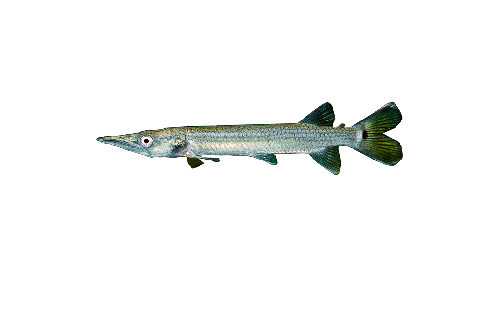 Scientific Name: Ctenolucius hujeta. Common: Freshwater Barracuda.